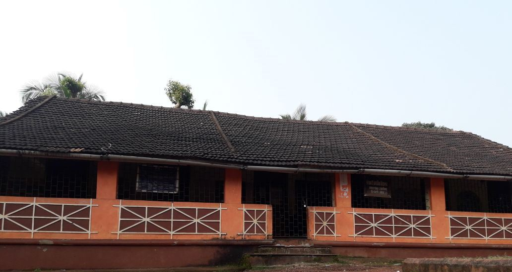 Education